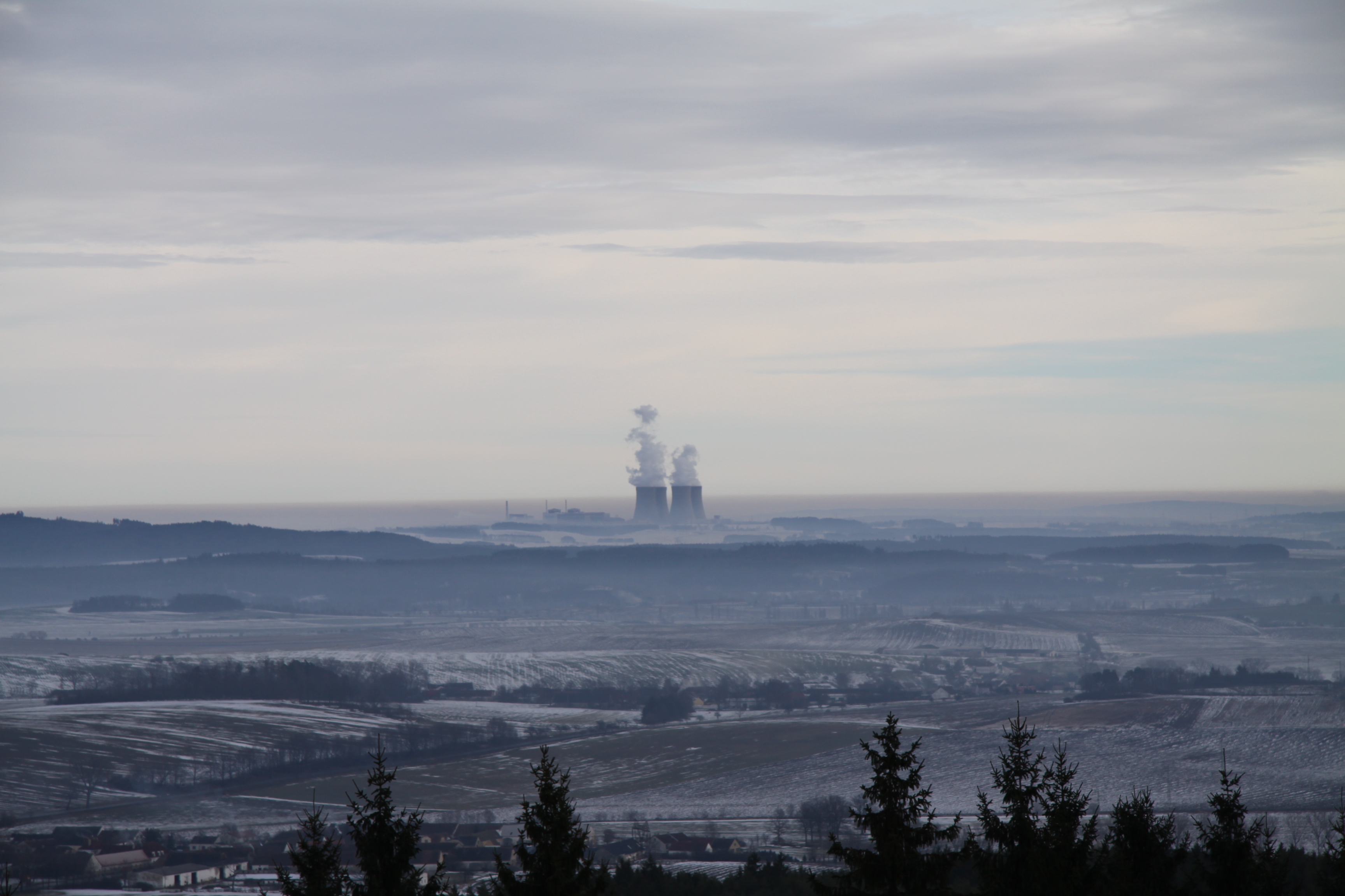 Cooling towers of the Temelín Nuclear Power Station from flanks of Hrad hill near Skočice village in Strakonice District, Czech Republic